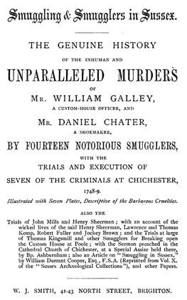 Title page of a book covering the trial of 7 smugglers for the murder of two revenue officers. In the preface the author says "I do assure the Public that I took down the facts in writing from the mouths of the witnesses, that I frequently conversed with the prisoners, both before and after condemnation; by which I had an opportunity of procuring those letters which are herein after inserted, and other intelligence of some secret transactions among them, which were never communicated to any other person."